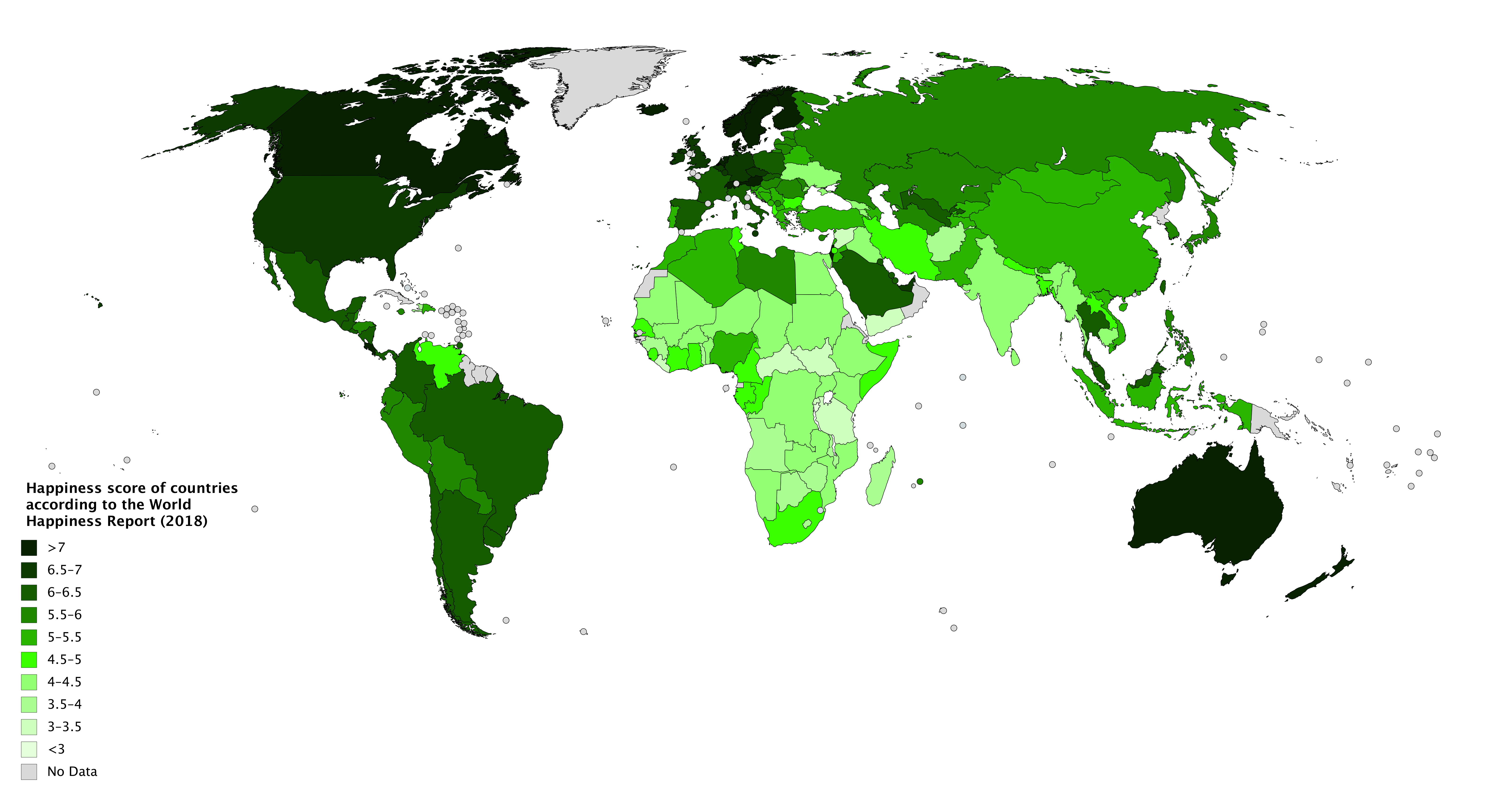 A choropleth map showing happiness of countries by their score according to the 2018 World Happiness Report.